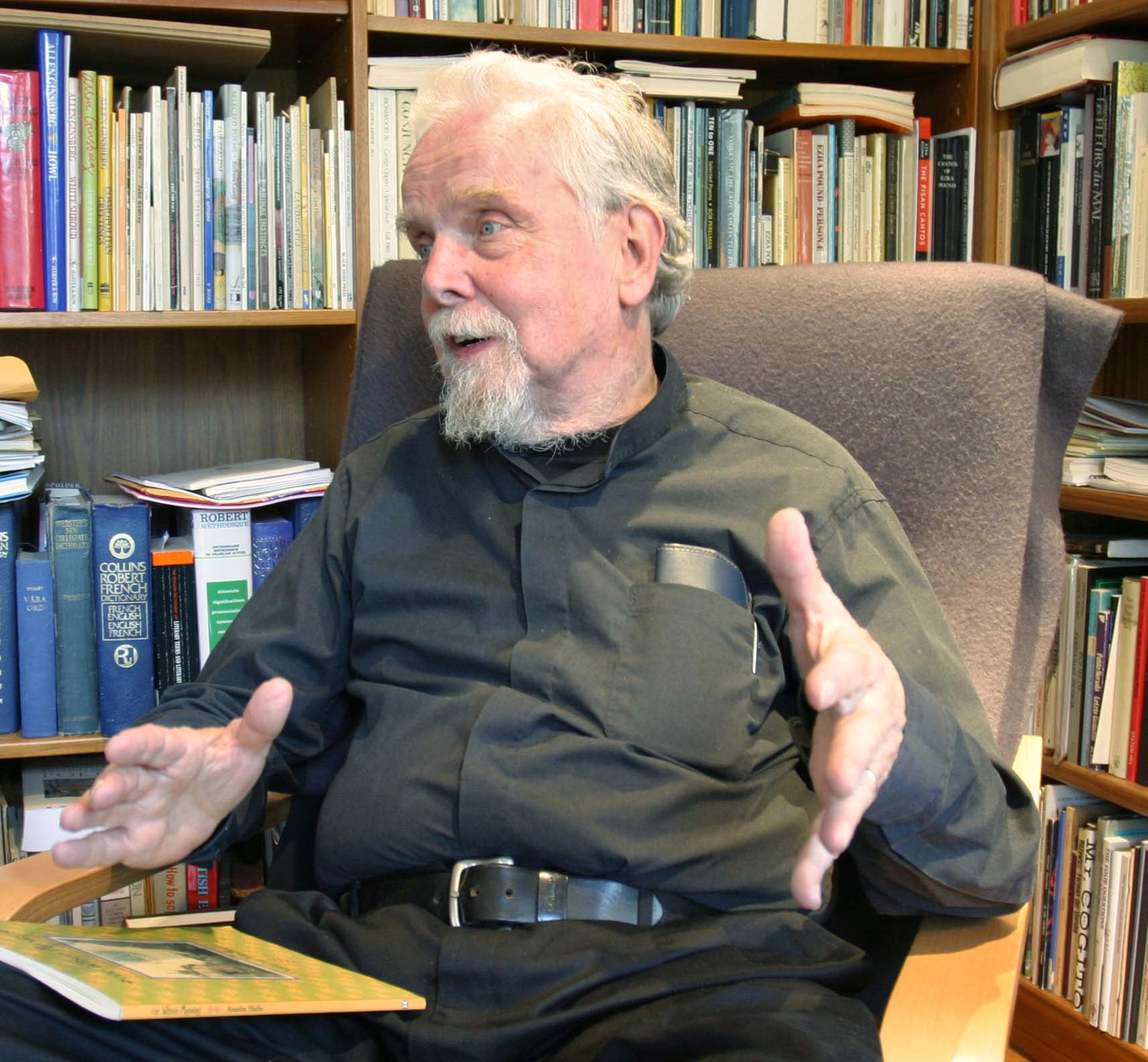 Anselm Hollo, photo by Gloria Graham taken during the video taping of Add-Verse, 2005